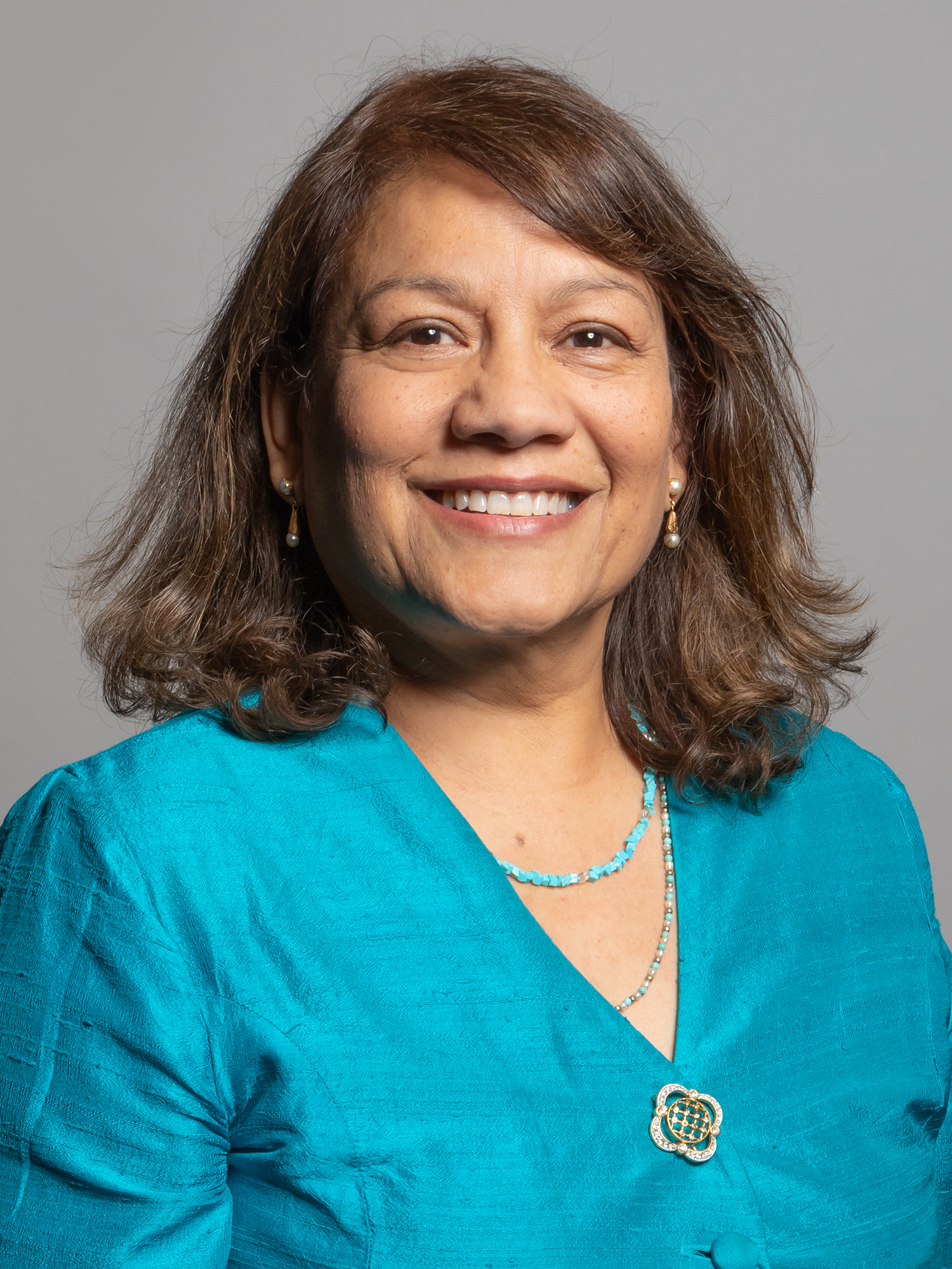 Official portrait of Rt Hon Valerie Vaz MP 3×4 portrait of Valerie Vaz